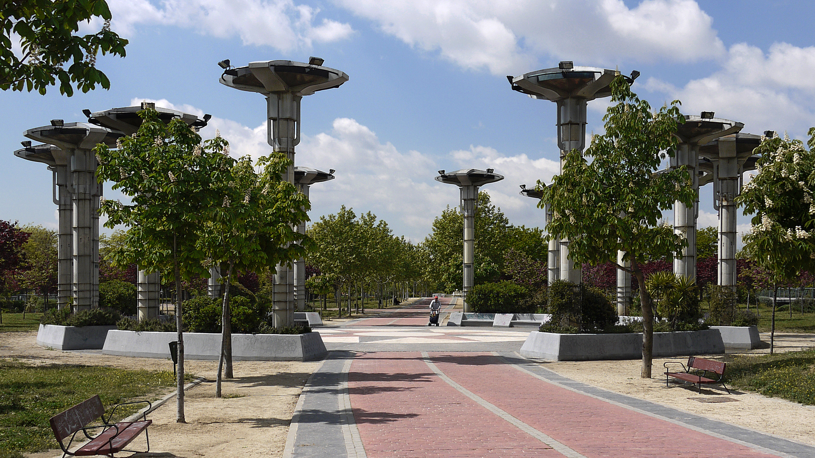 Parque de las Comunidades. Alcorcón, Spain